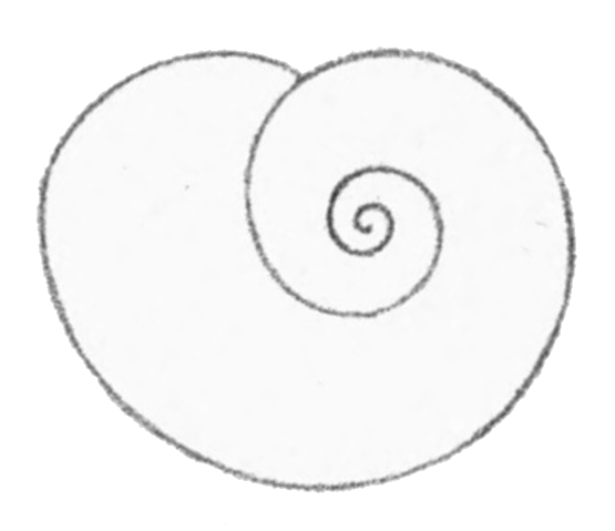 Drawing of an umbilical view of the shell of Choanomphalus aorus.